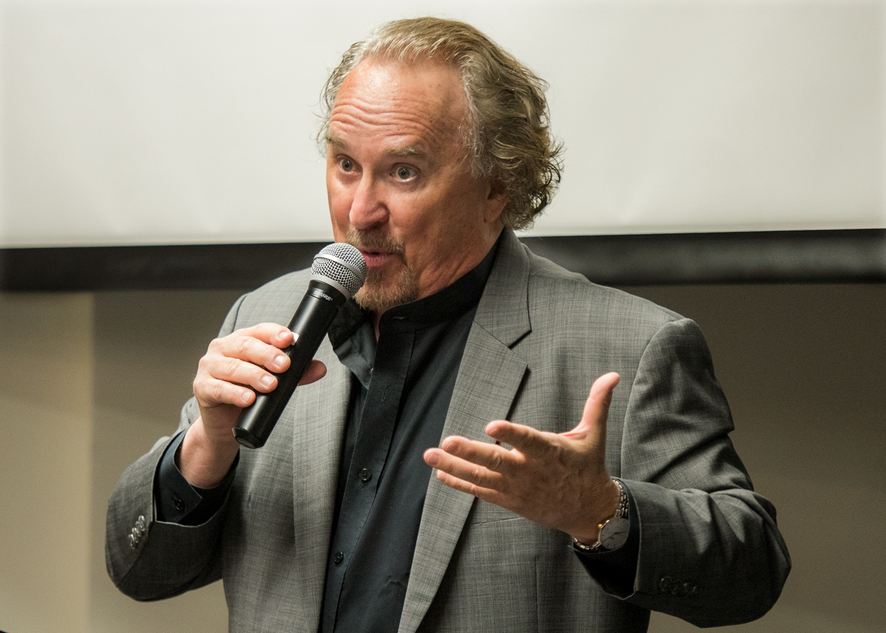 Bruce Henderson speaking at Kepler's Books about RESCUE AT LOS BANOS in April 2015